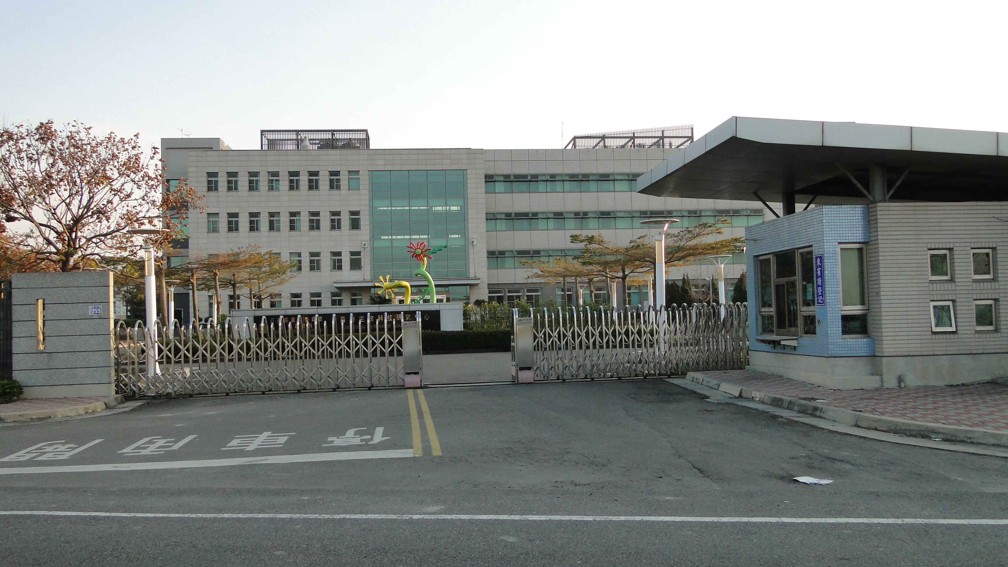 Agricultural Biotechnology Research Center, Taiwan Agricultural Research Institute, Council of Agriculture, Executive Yuan.